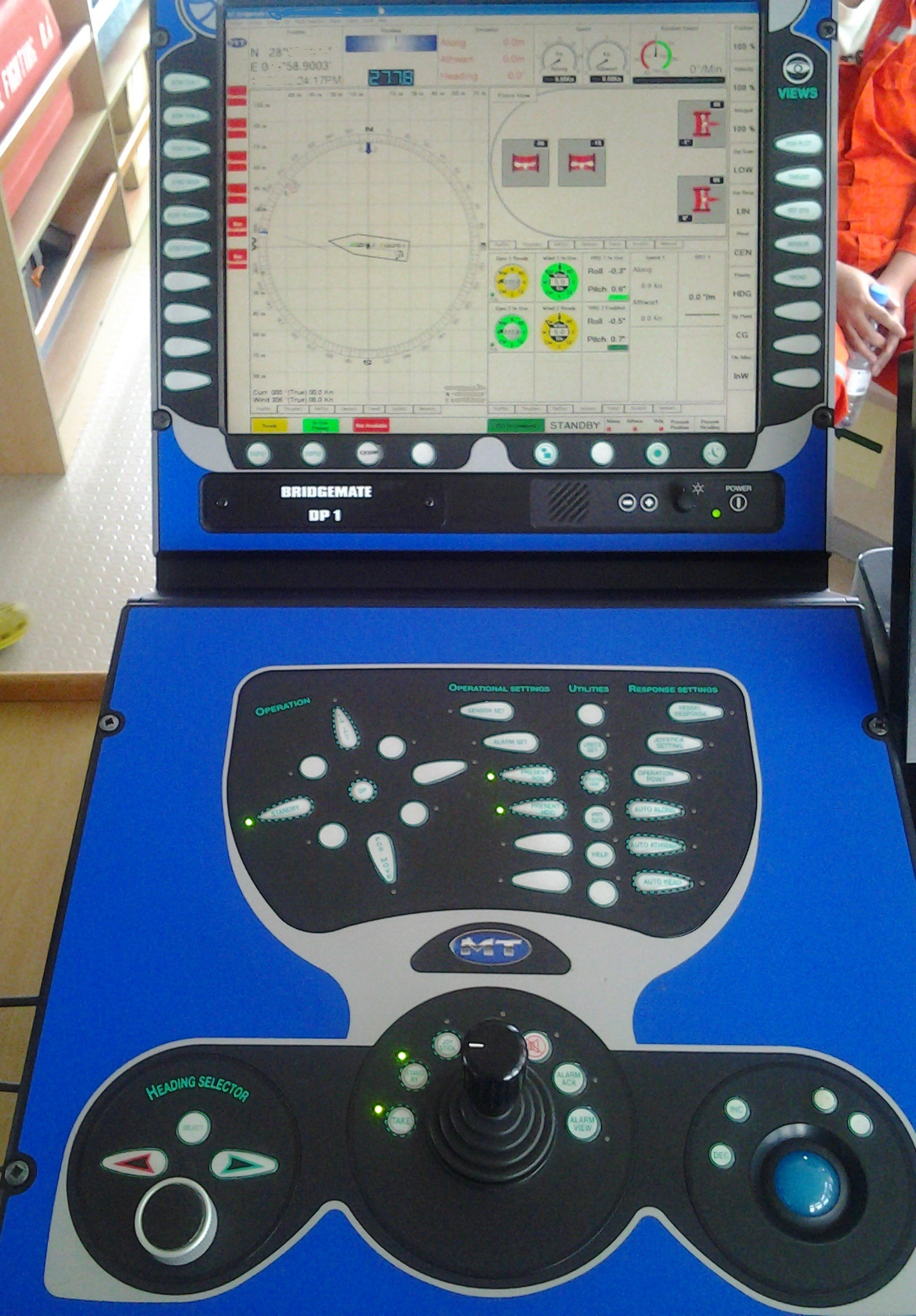 DP Operator Console Bridge Mate by Marine Technologies